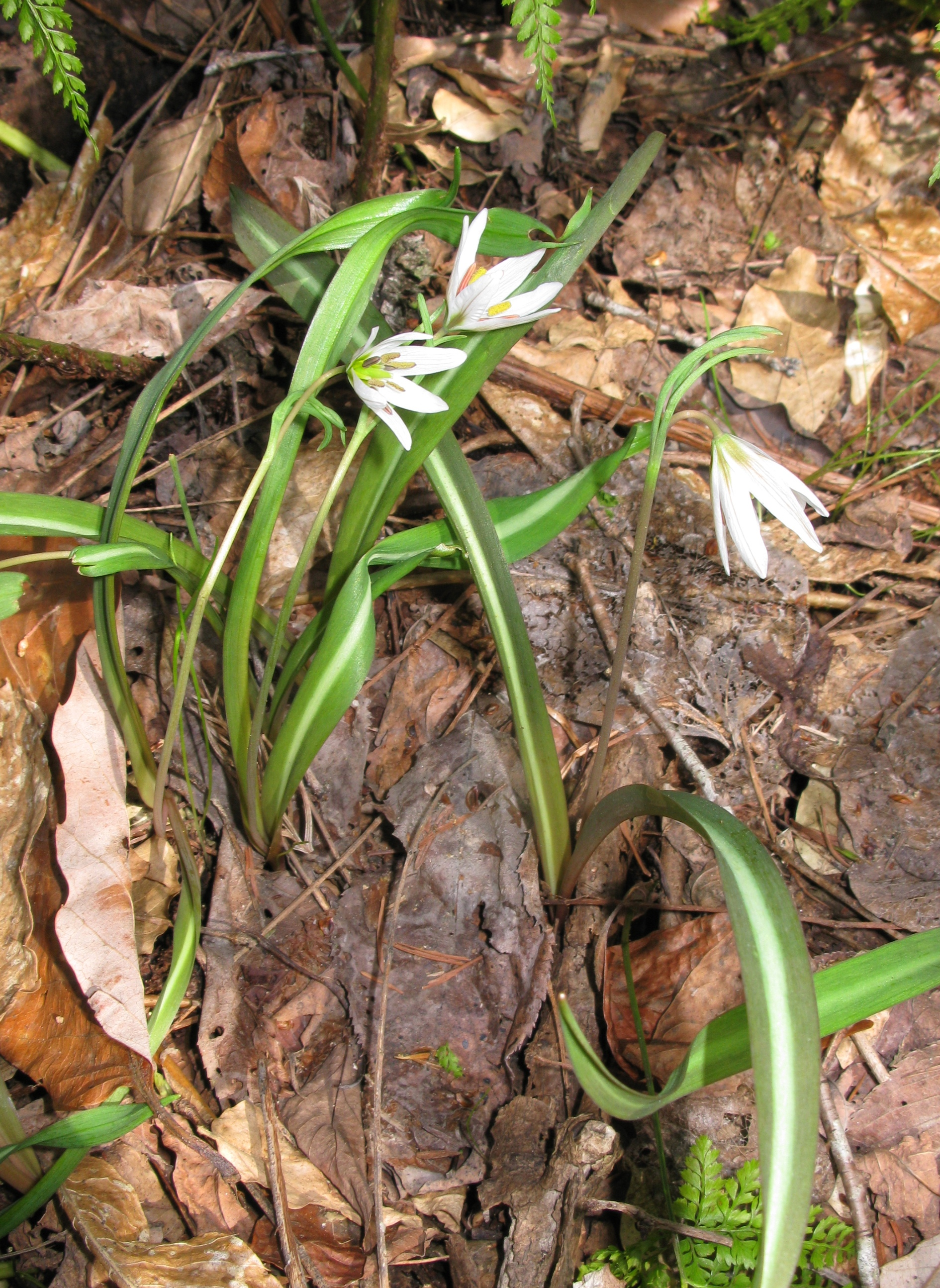 Amana latifolia, Fukushima pref., Japan